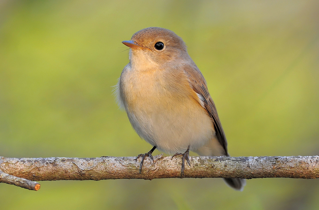 Red-breasted Flycatcher